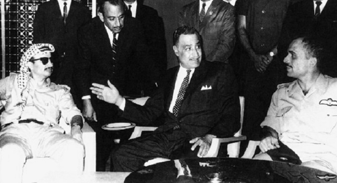 Egyptian President Gamal Abdel Nasser brokering an agreement to end the Black September conflict between Yasser Arafat (left) of the PLO and King Hussein (right) of Jordan. The negotiations are taking place at the Cairo Hilton